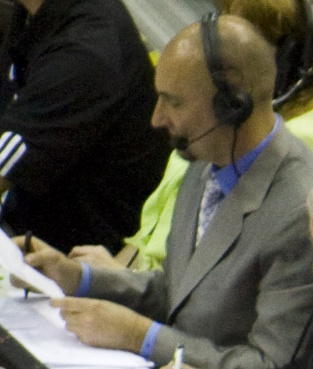 Jon Barry during the San Antonio Spurs at Orlando Magic game, 3/17/10